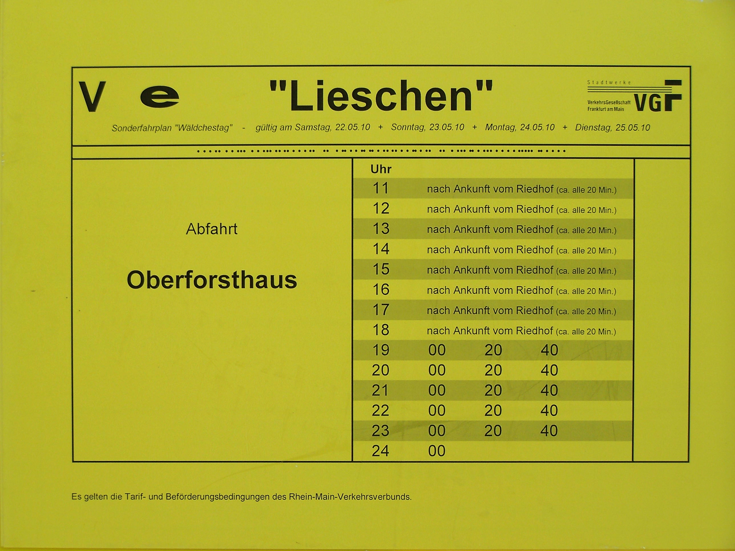 Timetable at "Lieschen"-Stop Oberforsthaus, May 2010